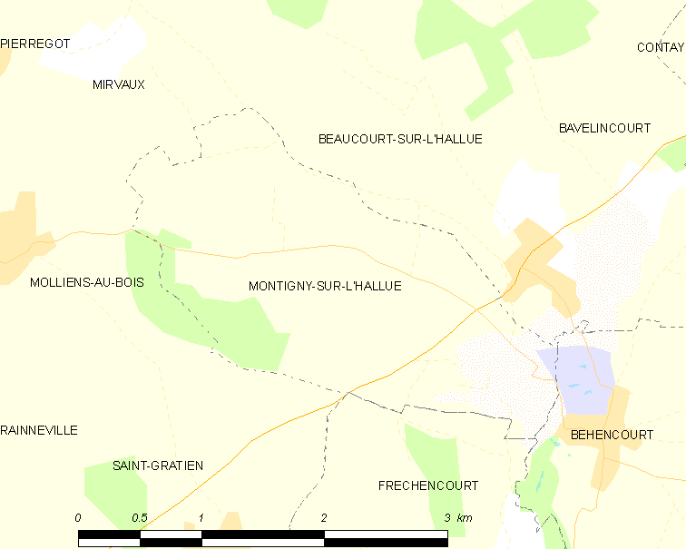 Map of French municipality Montigny-sur-l'Hallue